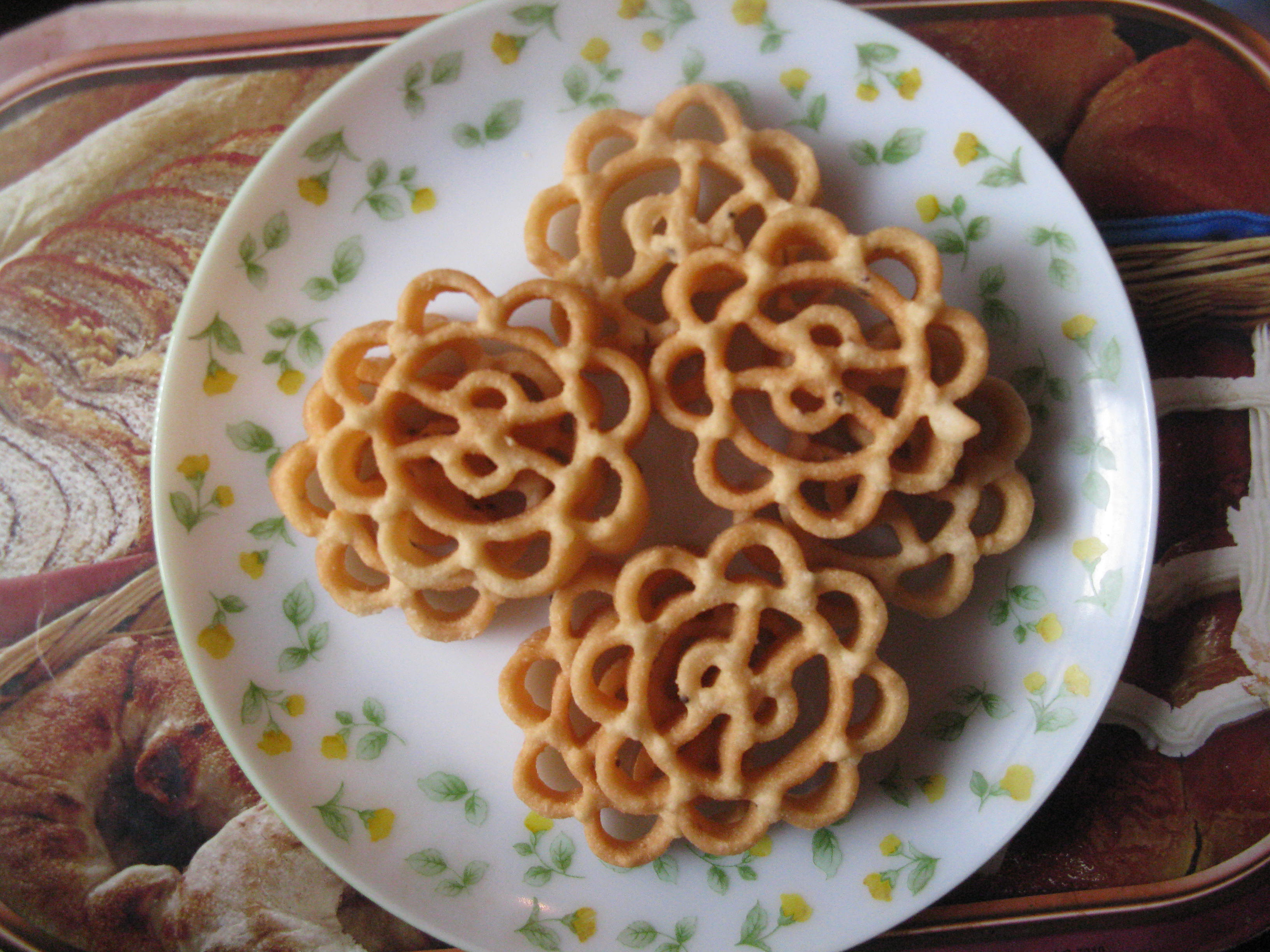 Achappam (Rose Cookies)